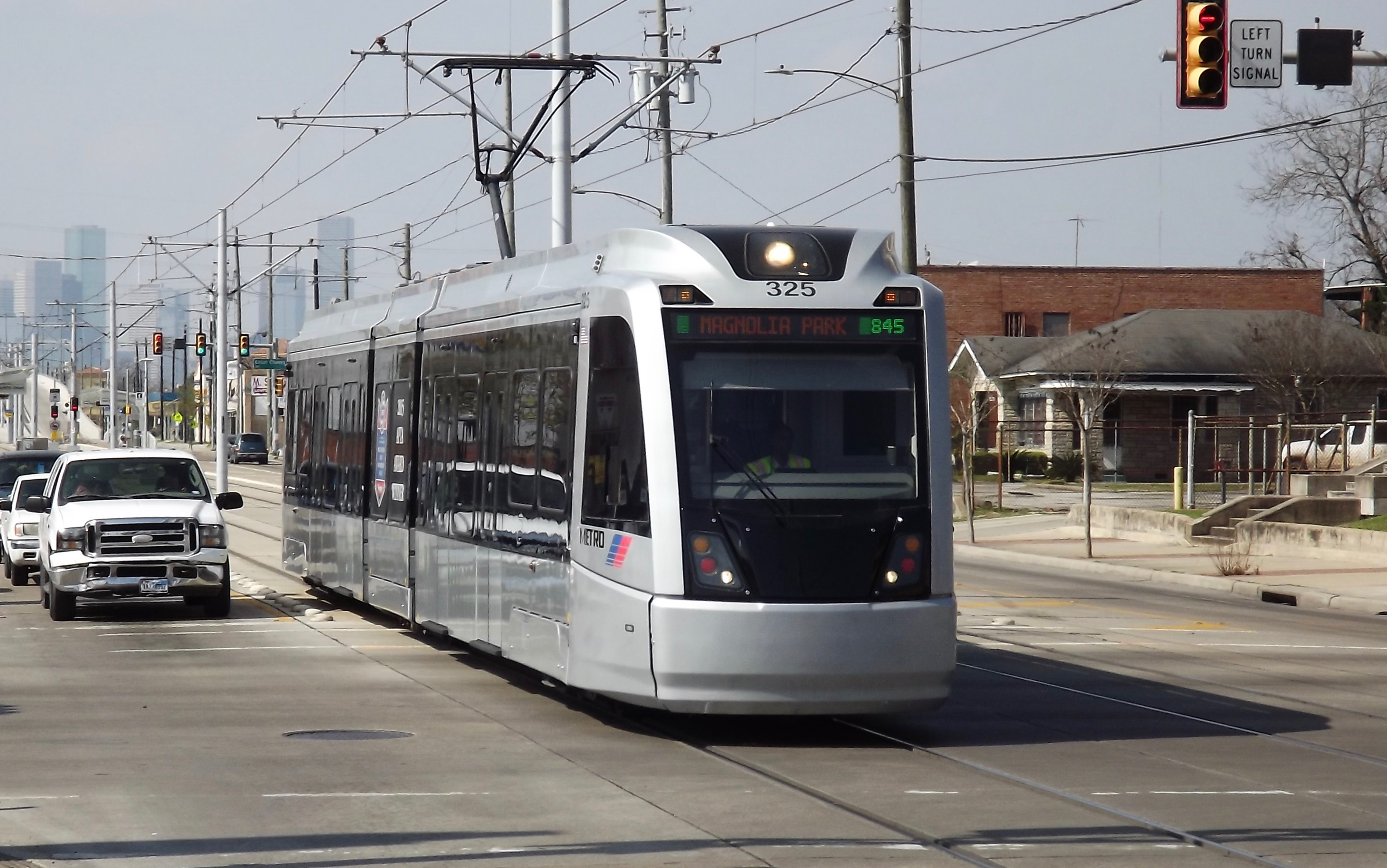 Houston MetroRail LRV (light rail vehicle) No. 325, built by CAF, eastbound on Harrisburg Boulevard at Wayside Drive, on the Magnolia Park extension of the Green Line, which opened on January 16, 2017 (upon completion of a bridge over the Union Pacific Railroad line).